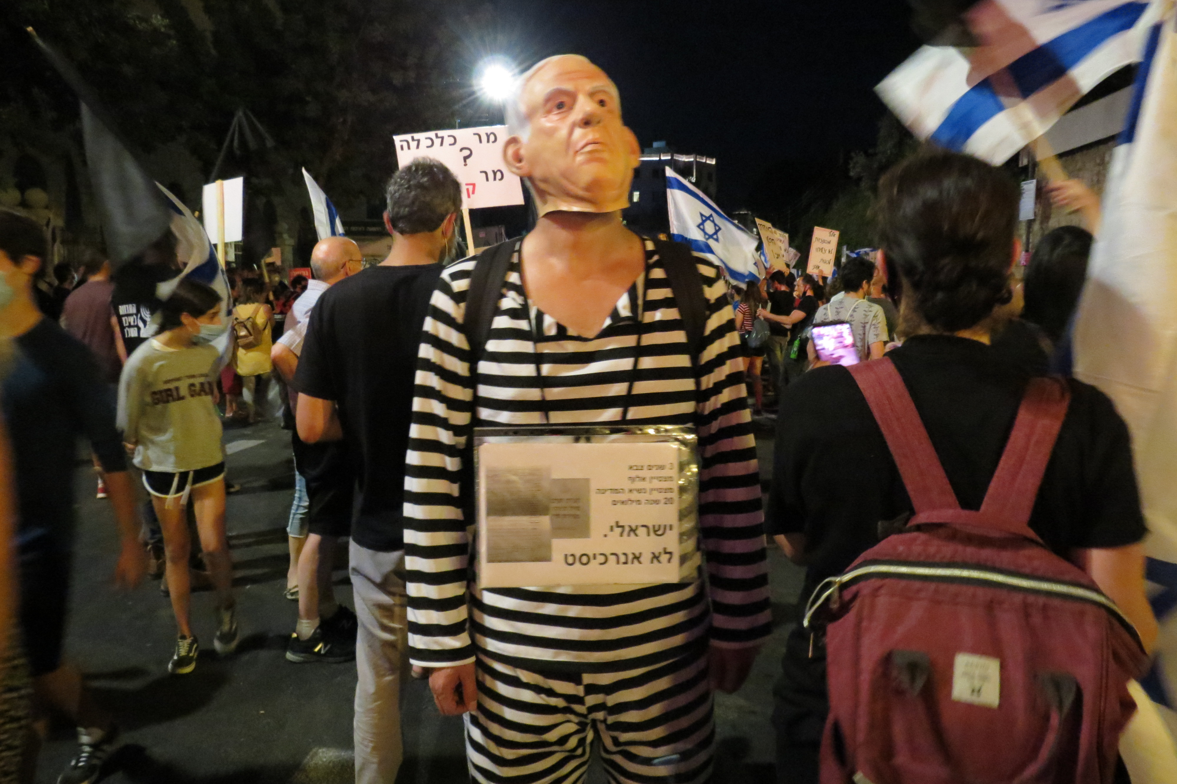 July 2020, demonstrators protest in front of the official residence of Israel's Prime Minister Netanyahu